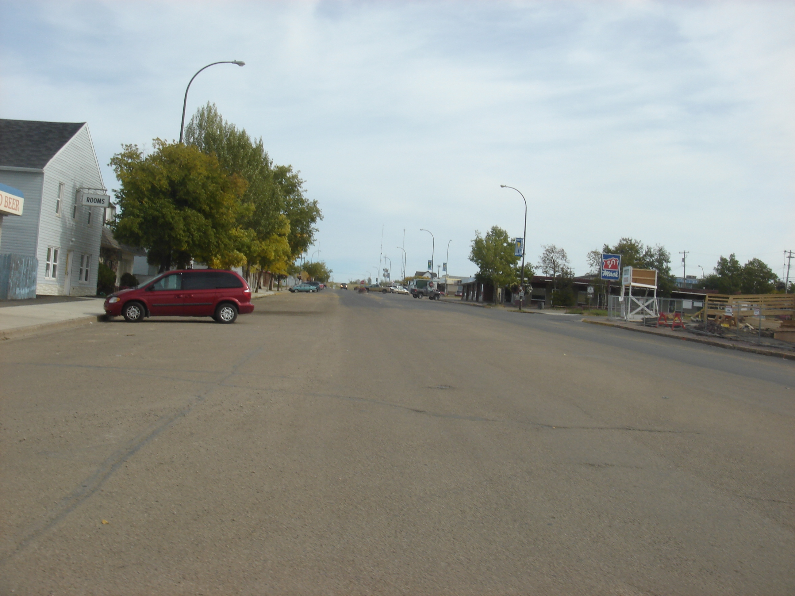 Mainstreet Valleyview, Alberta, Canada